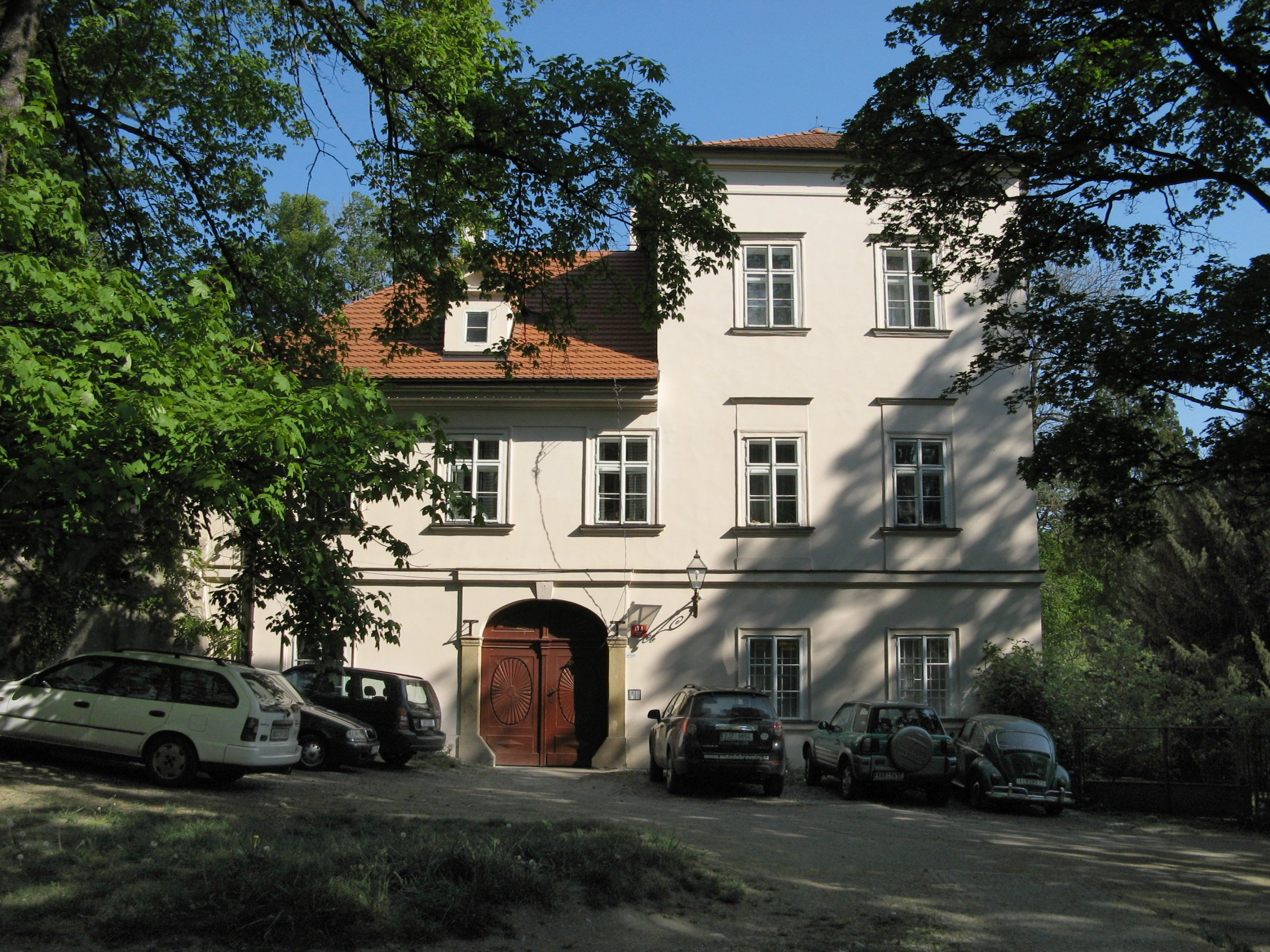 U Nikolajky in Prague, estate Nikolajka